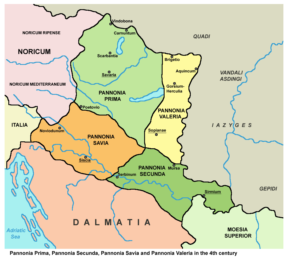 Pannonia Prima, Pannonia Secunda, Pannonia Savia and Pannonia Valeria in the 4th century.